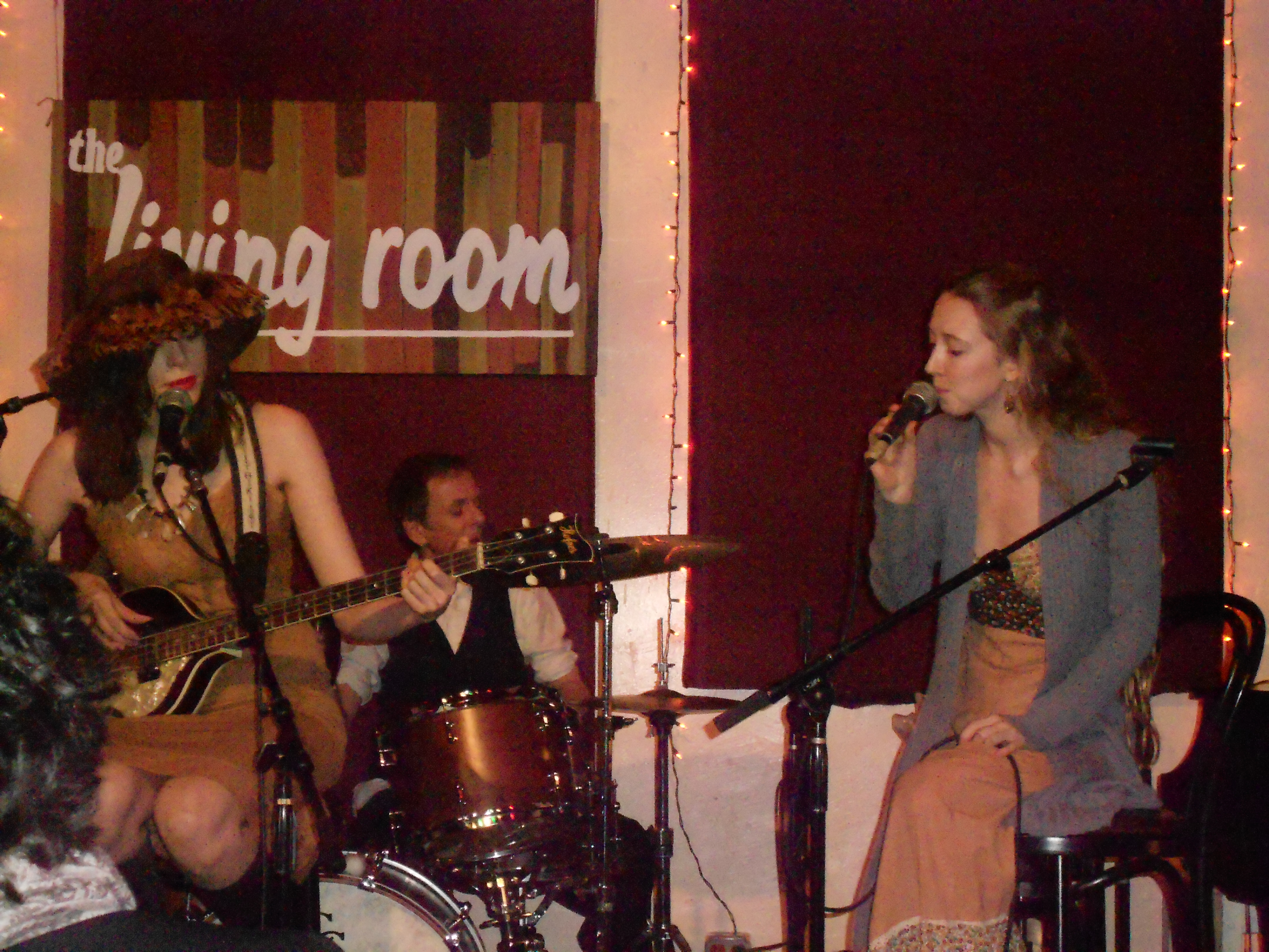 Singers Kemp Muhl and Eden Rice performing on April 2,2012